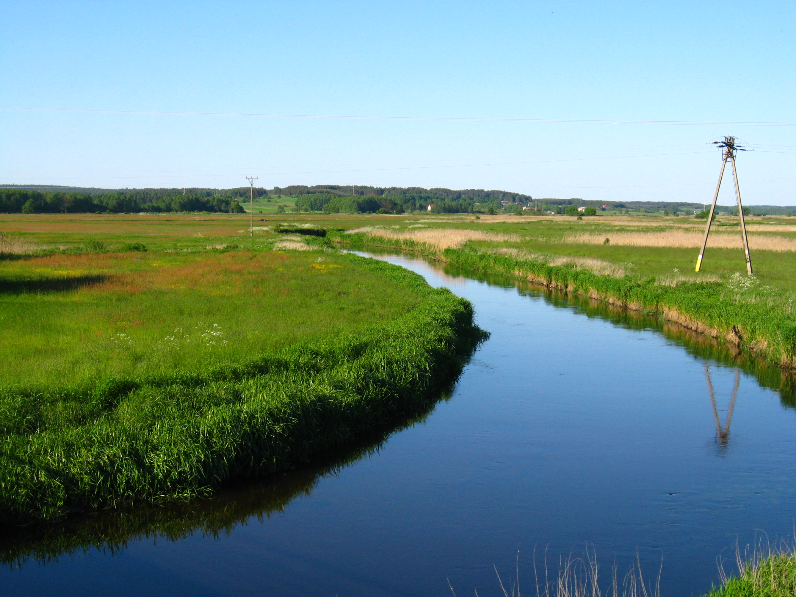 Biała river near Fasty village (gmina Dobrzyniewo Duże), seen from road bridge.